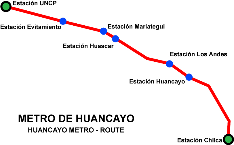 Huancayo Metro Route